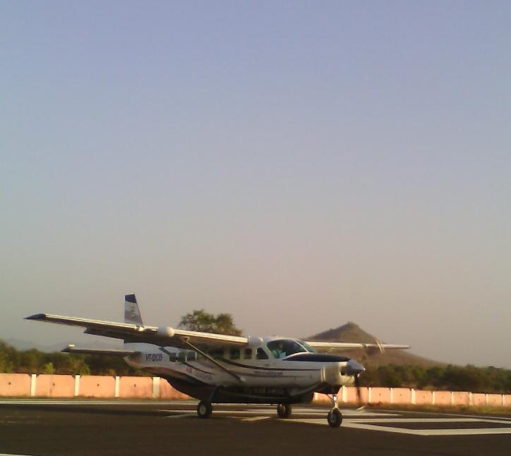 Air Odisha plane at Utkela Airport